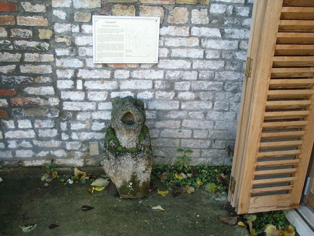 Gargoyle from St Ives Priory, displayed outside the Norris Museum, St Ives, Cambridgeshire (formerly Huntingdonshire)